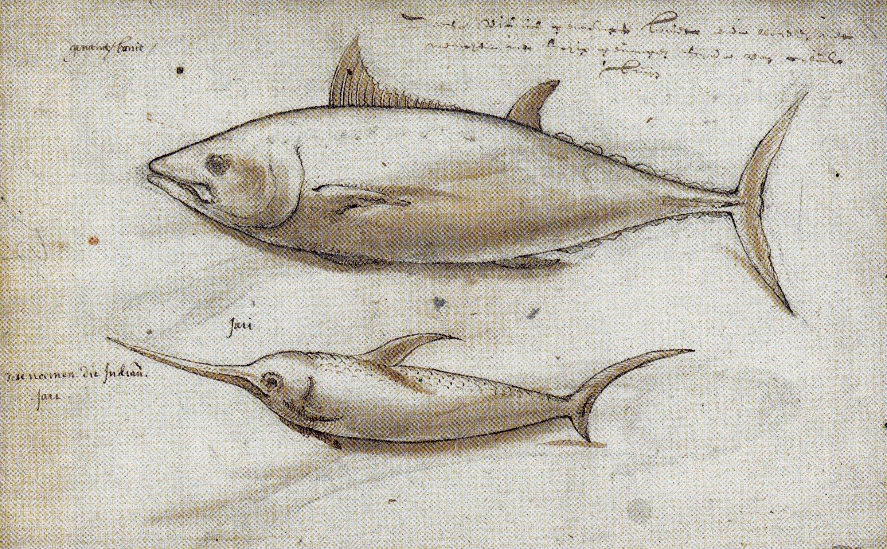 =Northern bluefin tuna (Thunnus thynnus) and Swordfish (Xiphias gladius).